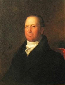 Portrait of "Chancellor Theodorick Bland (1776-1846)"